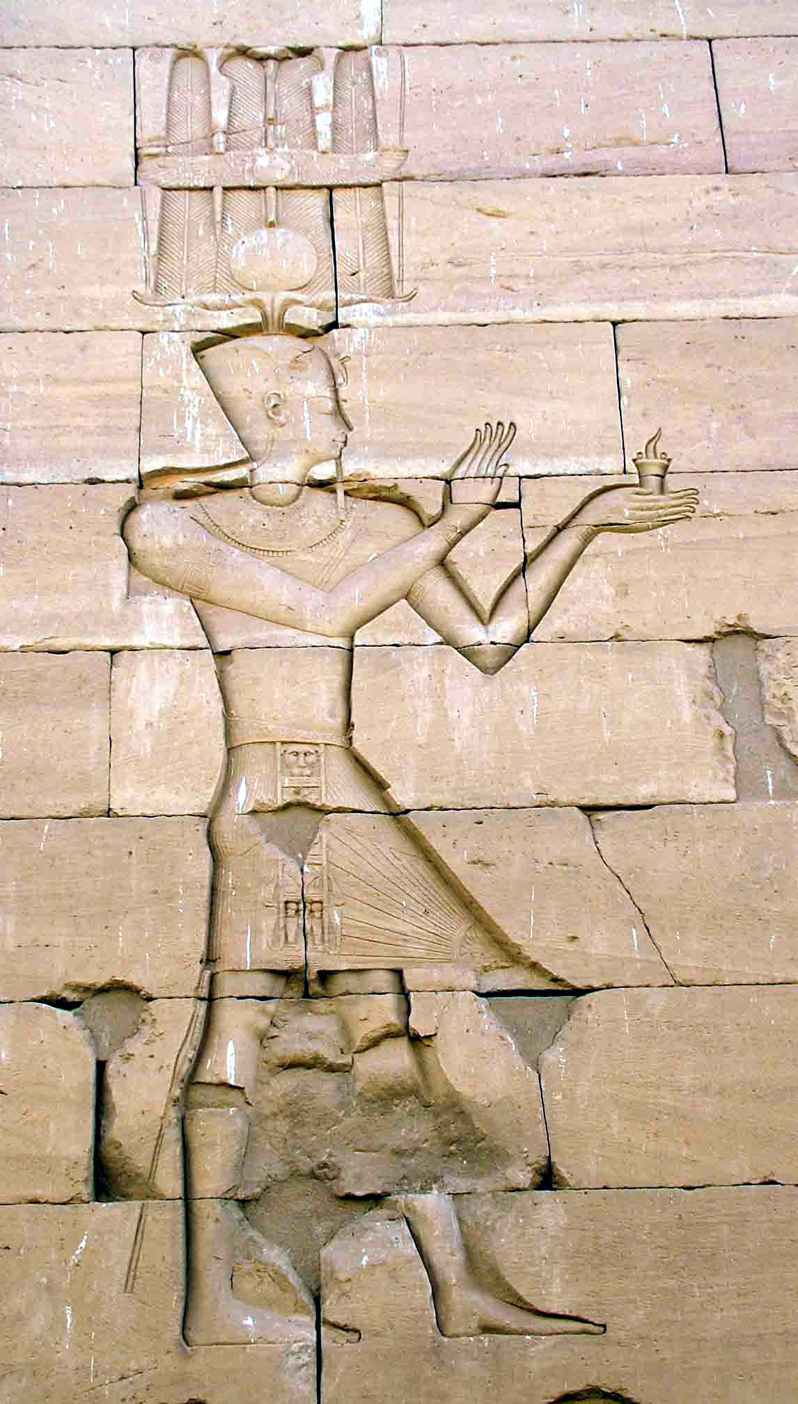 Gaius Iulius Caesar Augustus depicted Egyptian style on the free-standing temple of Kalabsha in Egyptian Nubia.